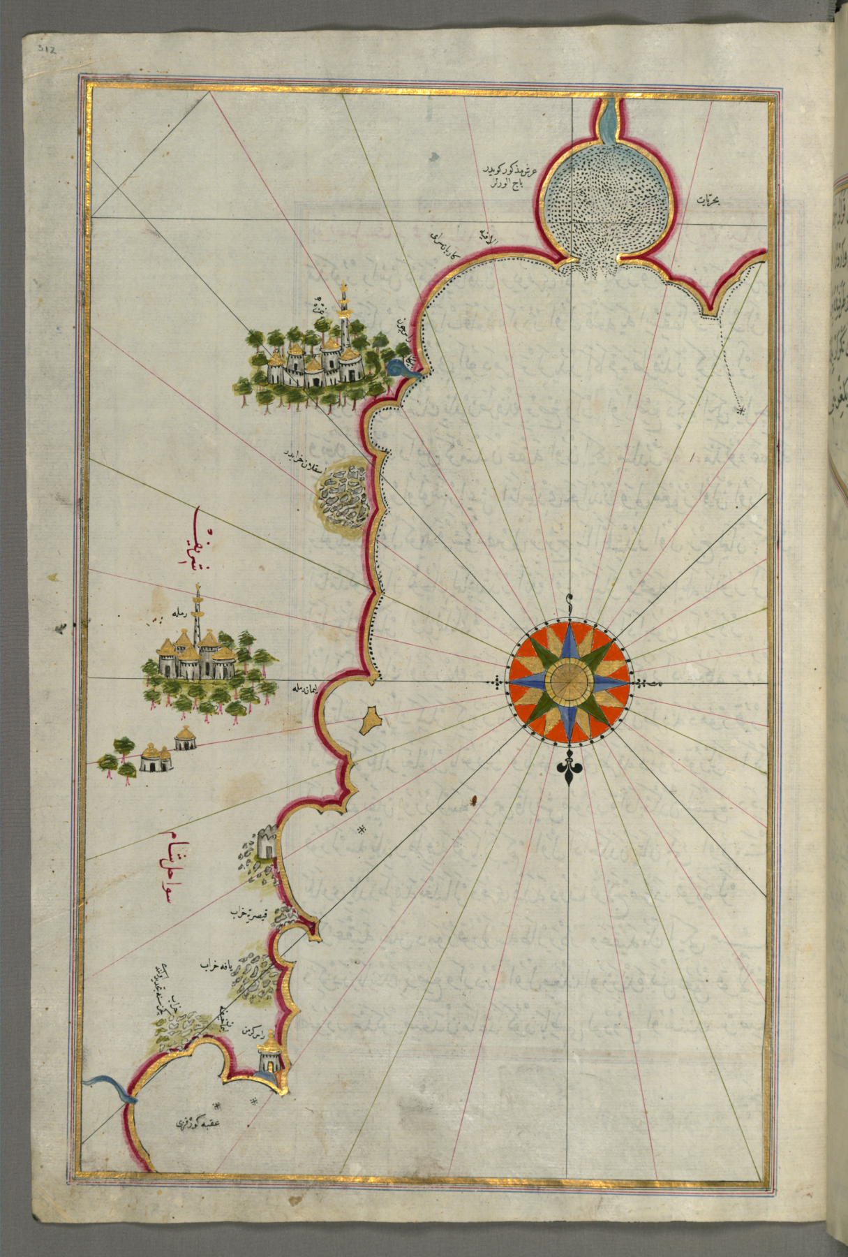 This folio from Walters manuscript W.658 contains a map of the "Syrian coast" and the cities: Gaza (Ghazzah) and Ramlah (present-day Gaza strip belonging to the Palestinian Authority).